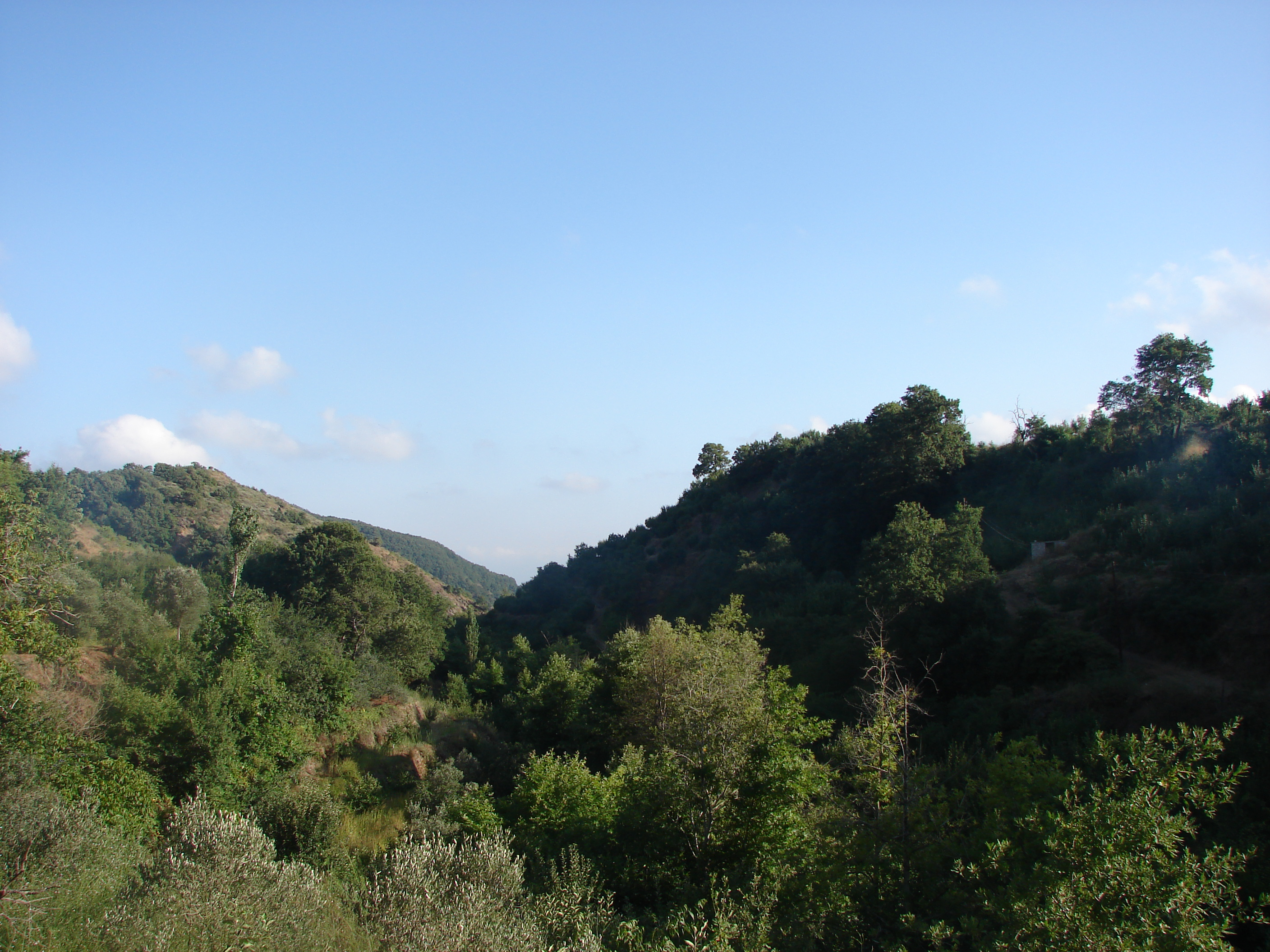 Al Btar enjoys amazing Mediterranean Summer